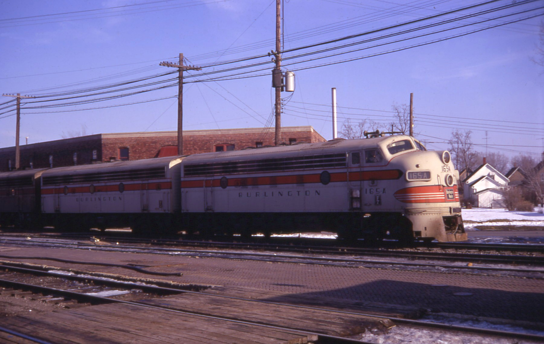 CB&Q F7s at Galesburg in 1968.